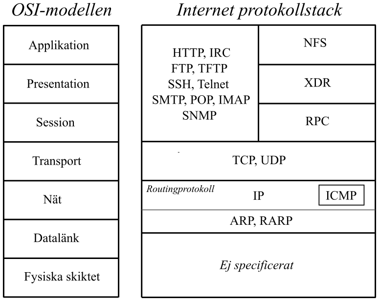 OSI model compared with internet protocol